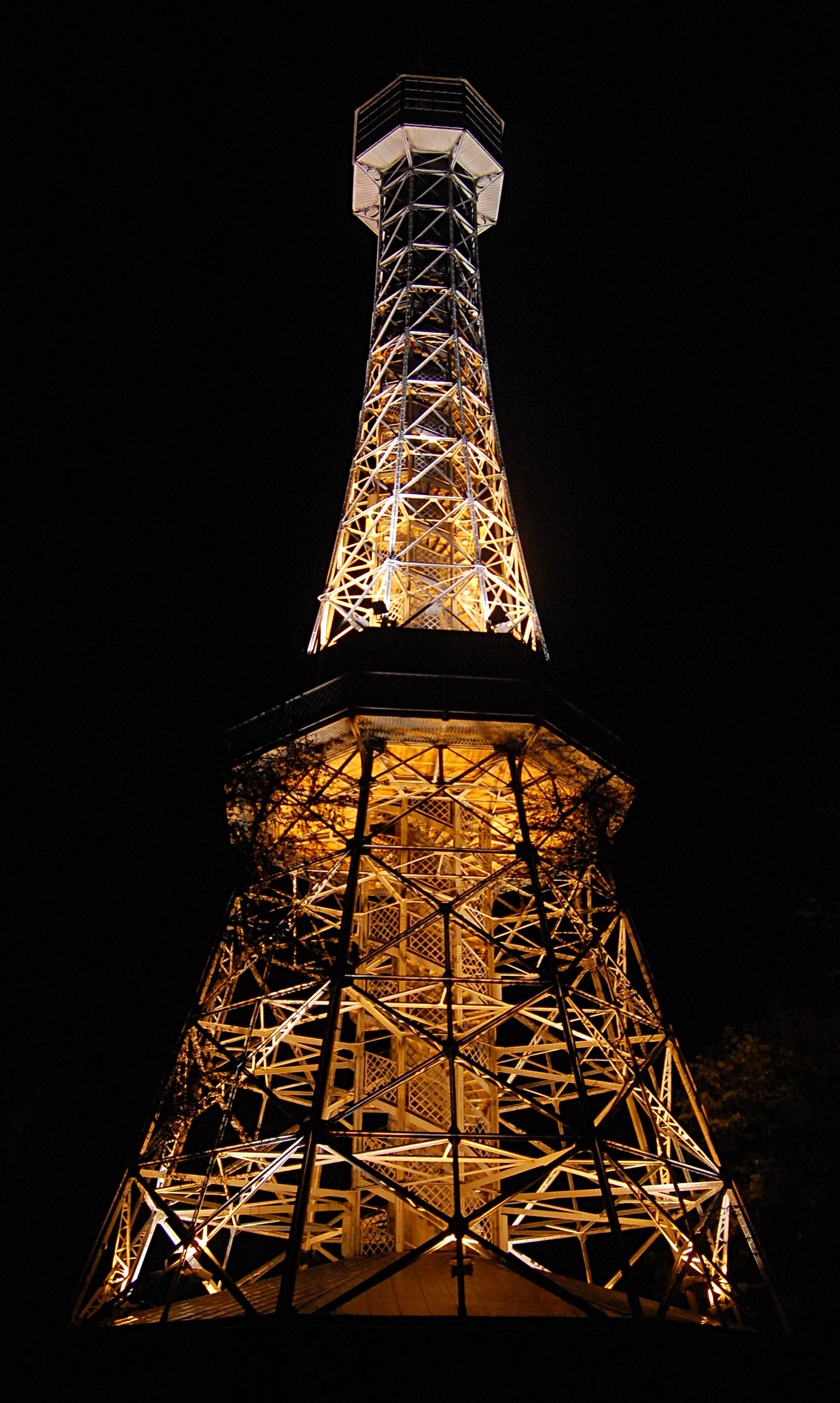 Petrin tower, Prague